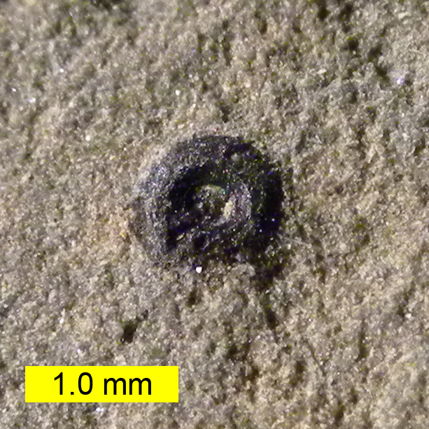 Sphenothallus holdfast on a hiatus concretion from the Kope Formation (Upper Ordovician), Gunpowder Creek, Kentucky.